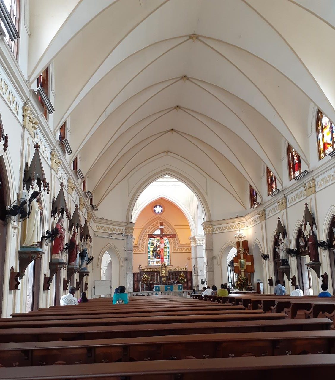 All Saints' Church Borella, magnificent interior architecture